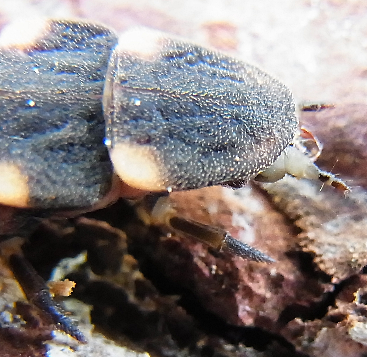 Head of larva of Lampyris noctiluca from France, 33113 Saint-Léger-de-Balson, Gironde, at 2013-05-04